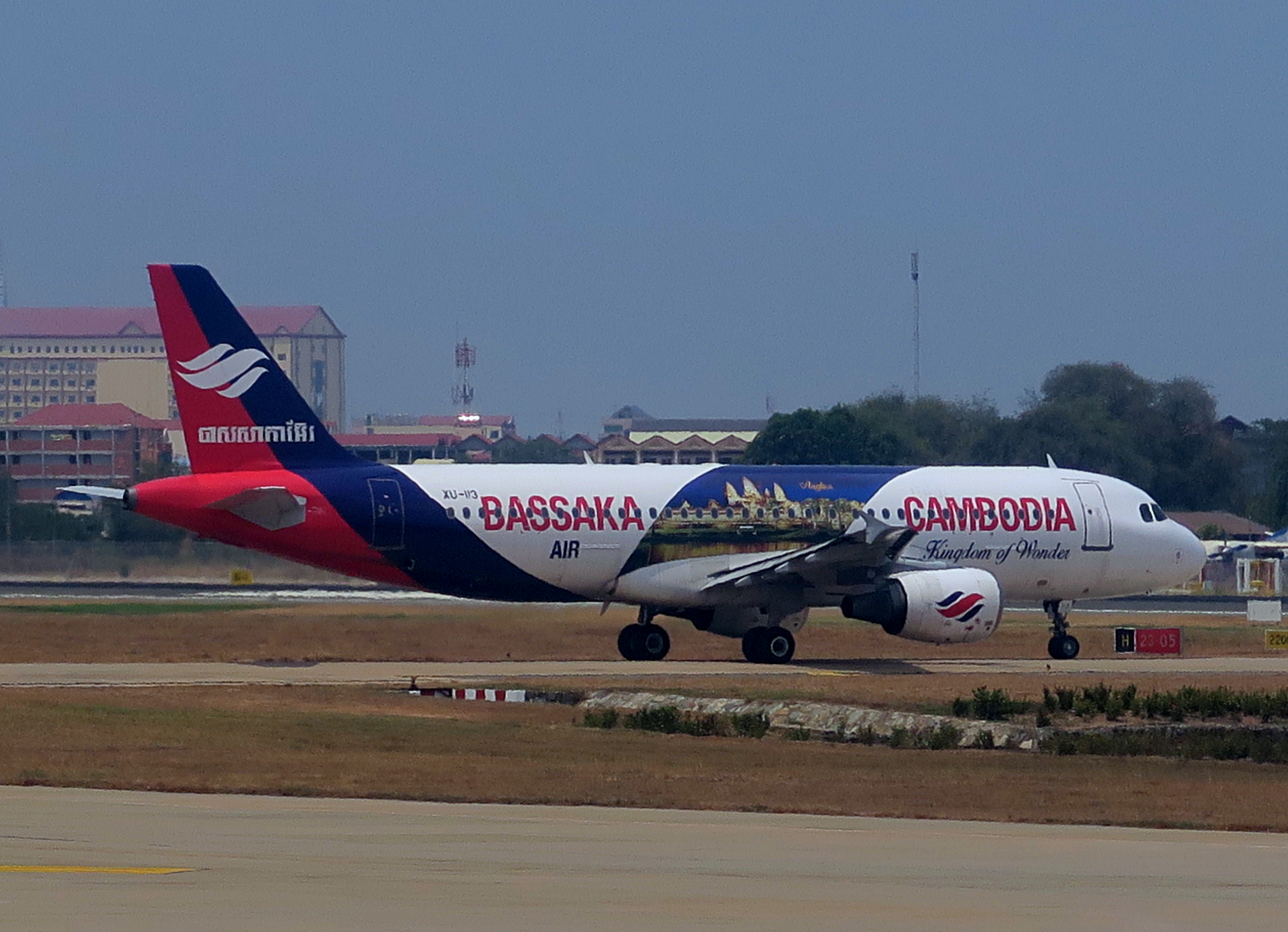 Bassaka Air - Airbus A320-214 XU-113 taxing at Phnom Penh International Airport